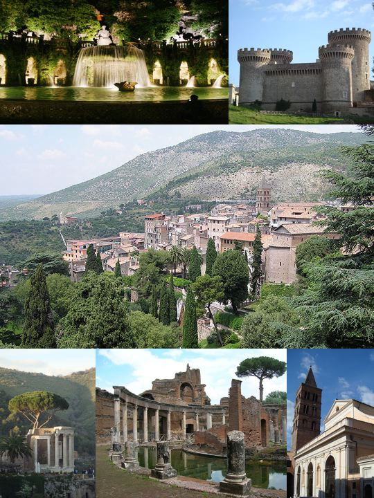 Collage of main touristic attractions in Tivoli, Italy. This work results in the association of the following files : File:Part.of.tivoli.near.rome.arp File:Rocca_Pia_de_Tivoli File:Temple_de_Vesta_de_Tivoli File:Este02 File:Théâtre_maritime1 File:Cathédrale_San_Lorenzo_di_Tivoli